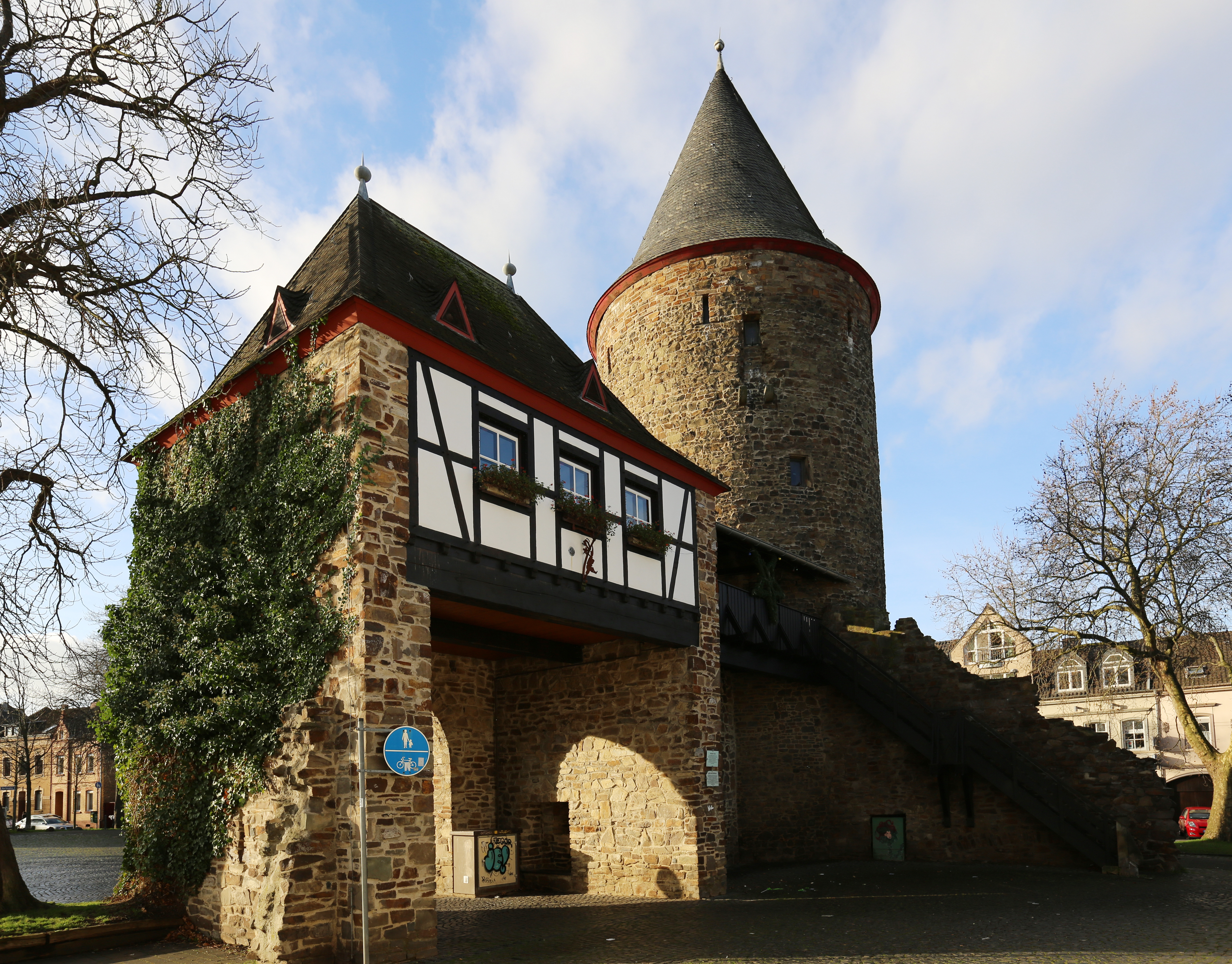 The medieval tower "Wasemer Turm" (12th century) of Rheinbach is made by construction material of the Roman Eifel Aqueduct, one of the longest aqueducts of the Roman Empire